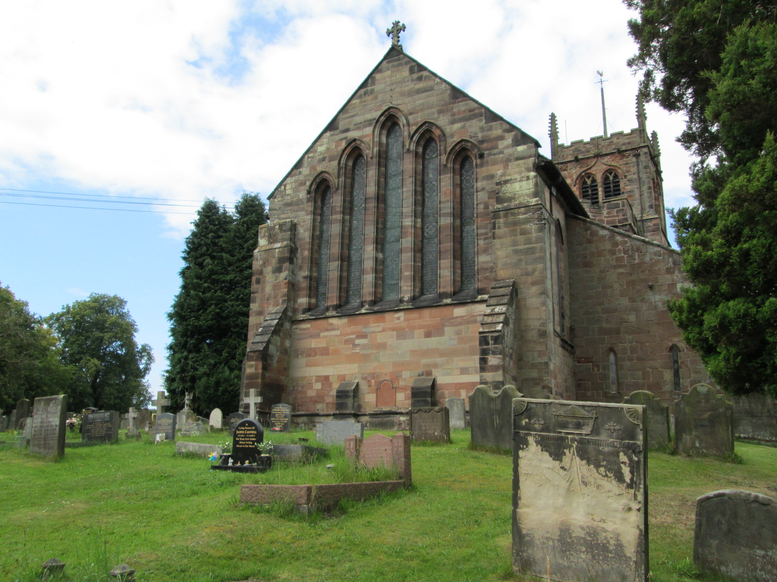 The east end of Holy Trinity Church, Eccleshall.